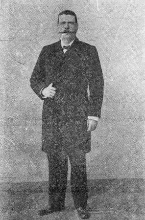 Andreas Kampas (1851-1924): Greek industrialist